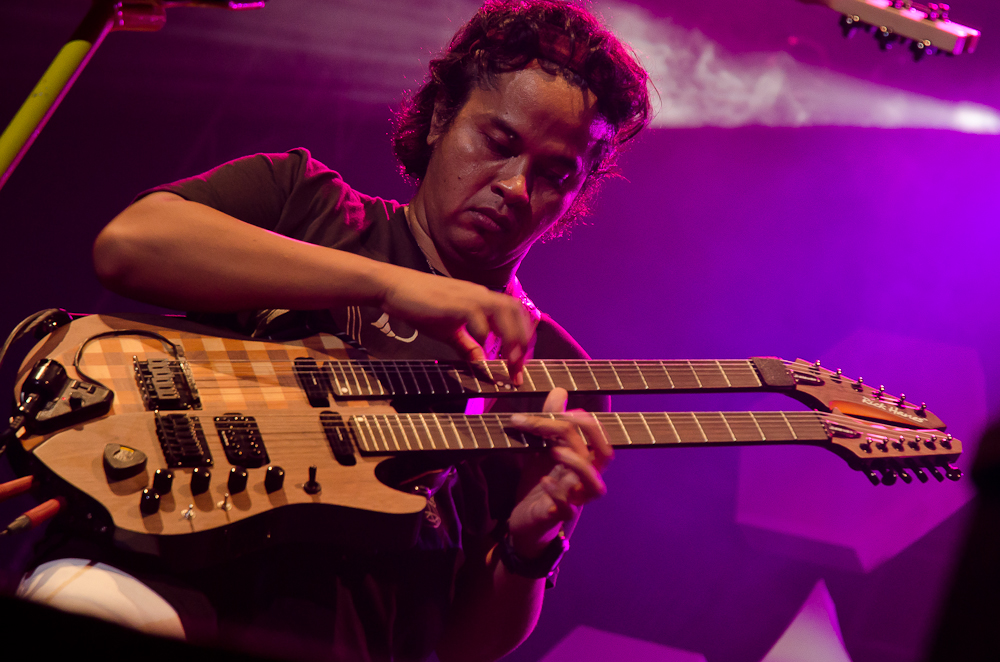 Balawan at JavaJazz Festival 2012